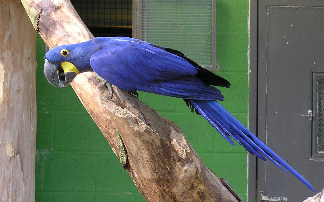 Hyacinth Macaw, (Anodorhynchus hyacinthinus)